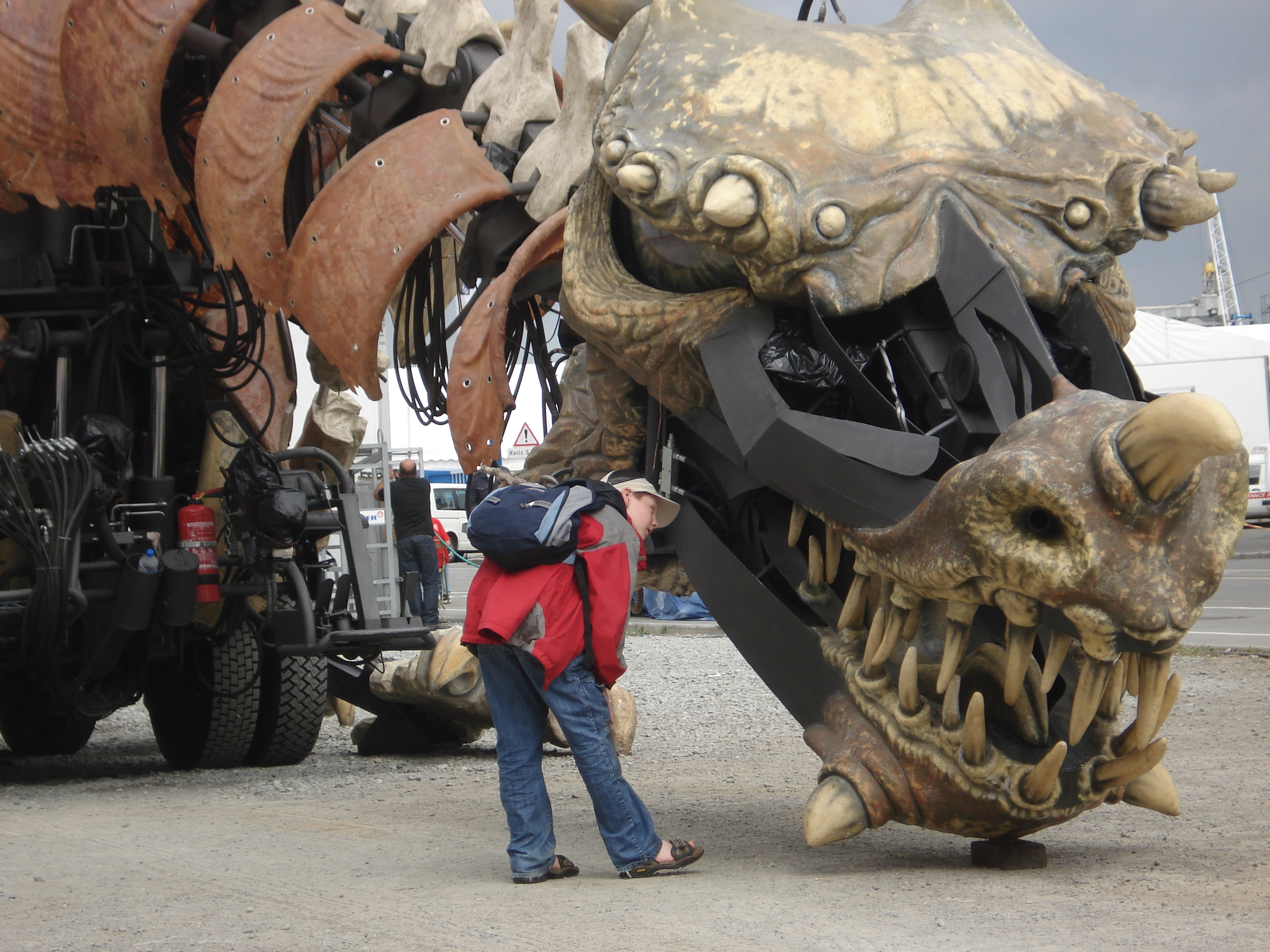 Giant mechanical dragon on the quais of the Brest 2008 marine festival.